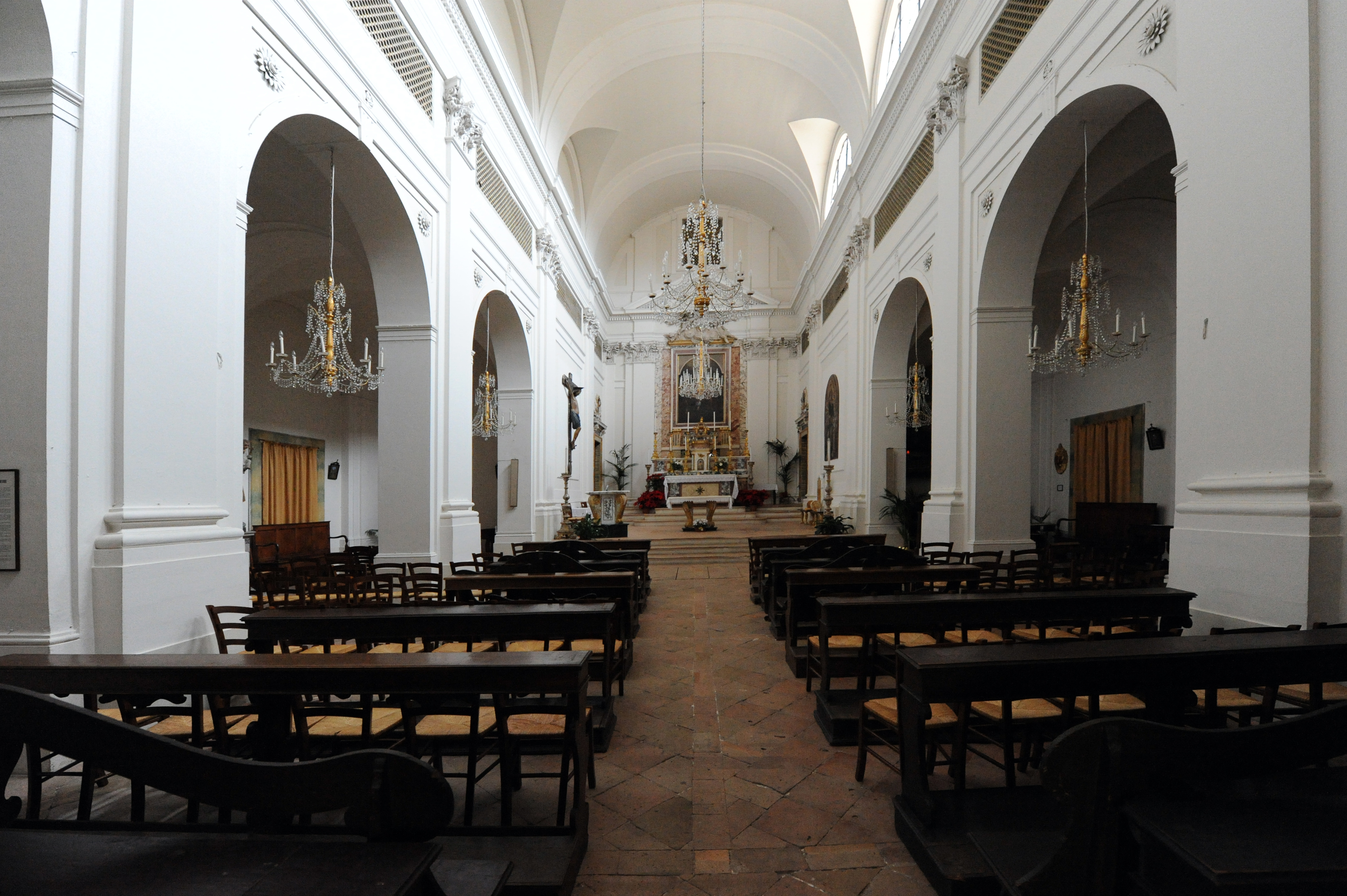 San Ponziano